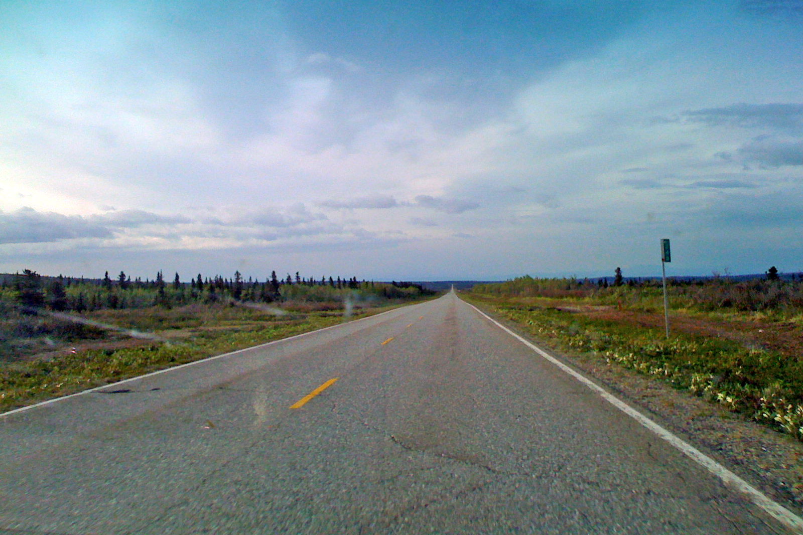 Richardson Highway, Alaska